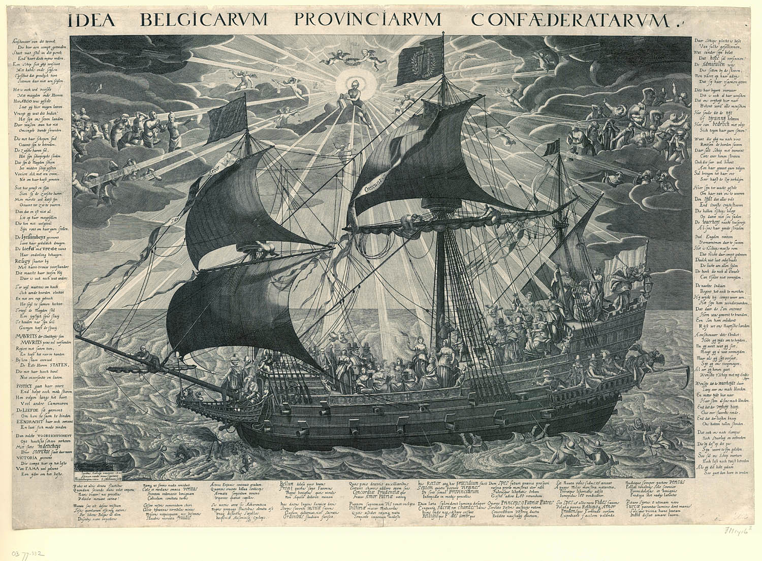 Allegorical representation of the Dutch Republic as a ship.